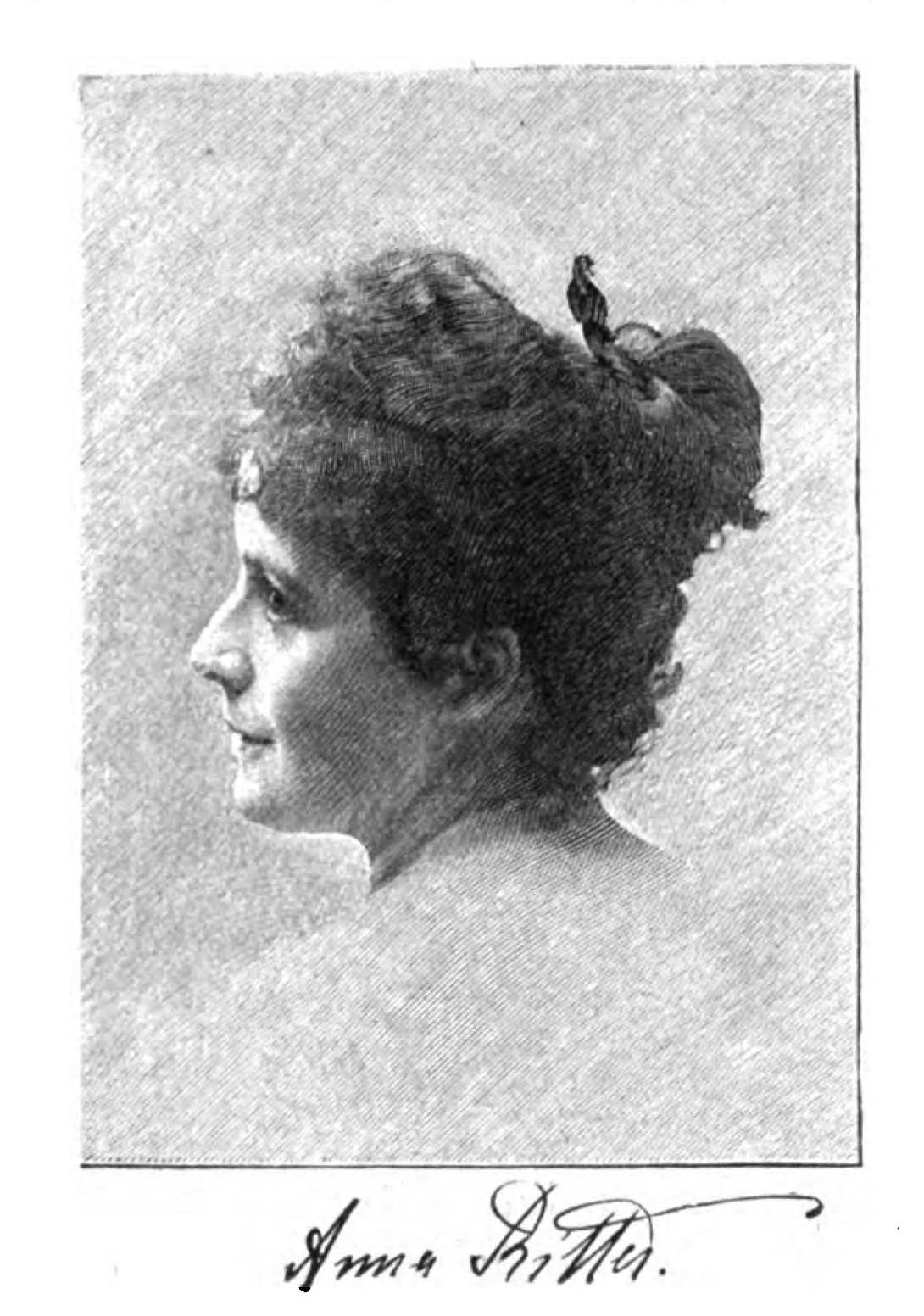 caption: "Anna Ritter."